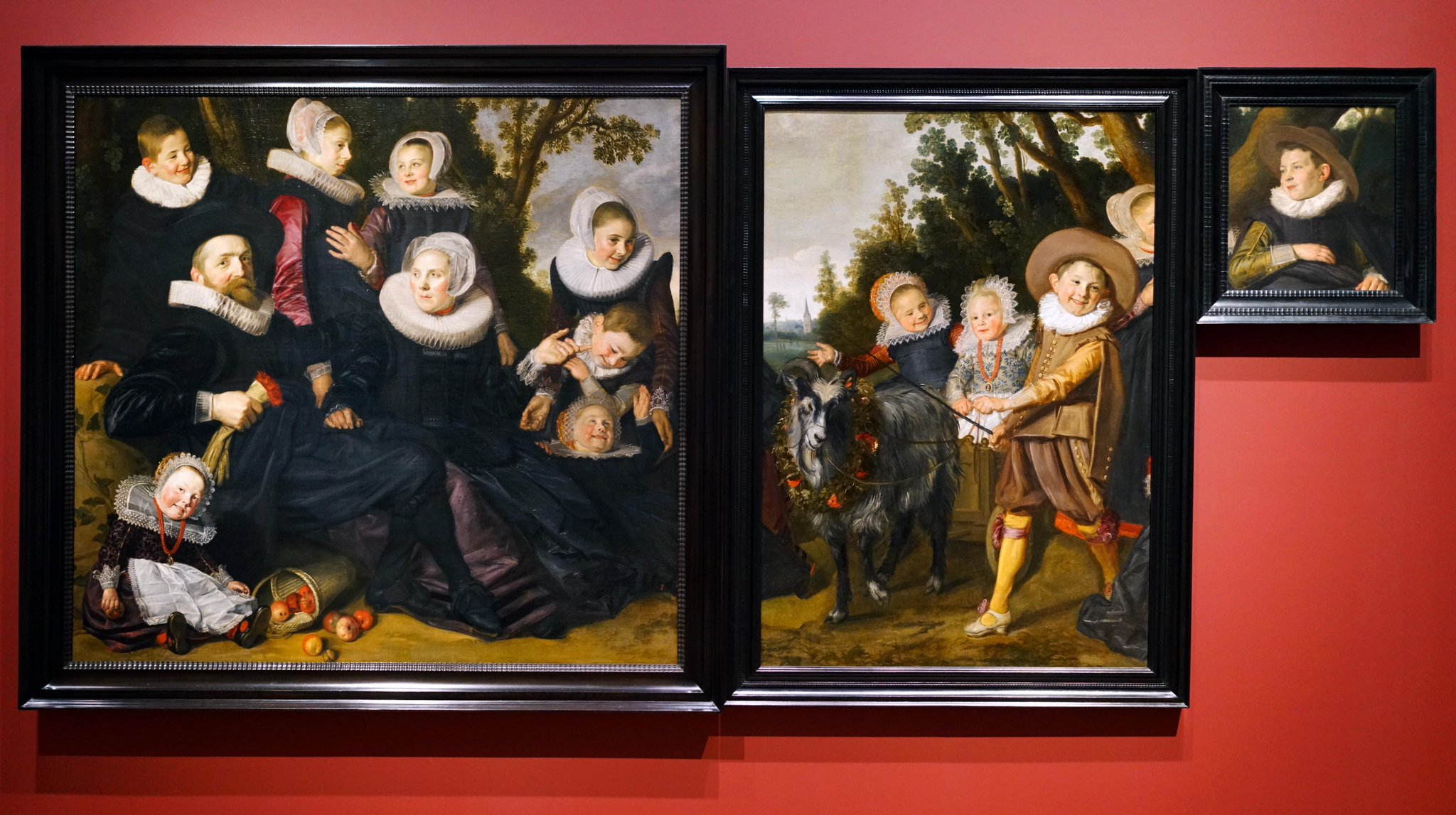 The left half is in the collection of the Toledo Museum of Art, with an extra baby lower left added by Salomon de Bray in 1628, the center half is in the collection of the Royal Museums of Fine Arts of Belgium, Brussels, and a third fragment on the far right from a European private collection make up the three known surviving pieces of the original portrait. Pictured as displayed in the Toledo Museum of Art during the exhibition "Frans Hals Portraits: A Family Reunion".